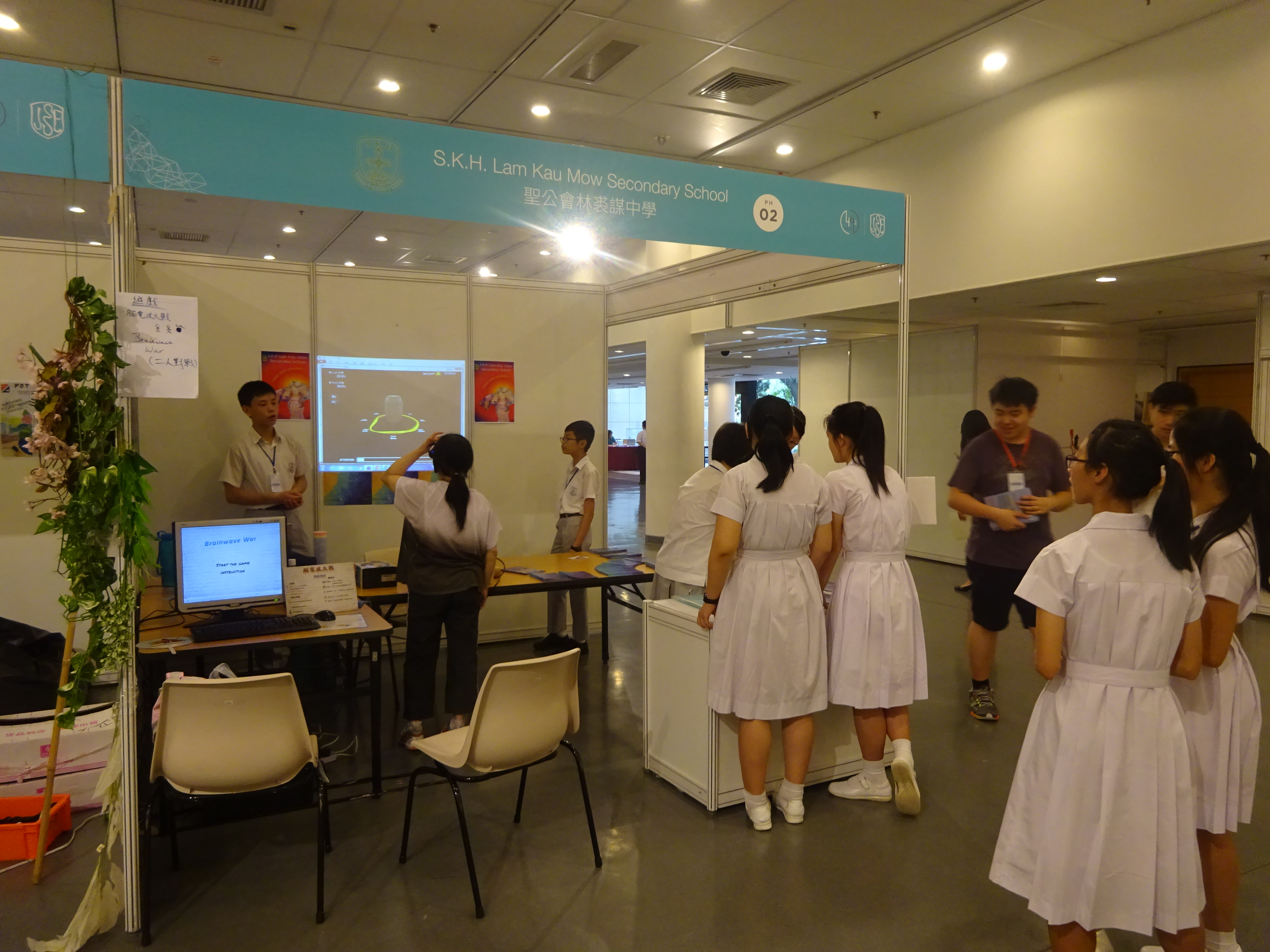 HKCL 香港中央圖書館 Causeway Bay 聯校科學展覽 49th Joint School Science Exhibition JSSE in August 2016